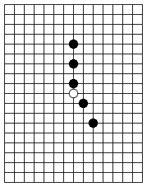 Sample opening moves in game of phutball statement written in the uploaded summary